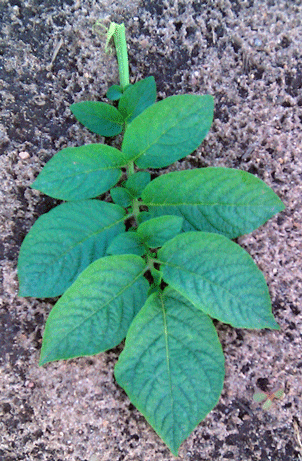 "Atlantic" potato leaf, Summer 2011